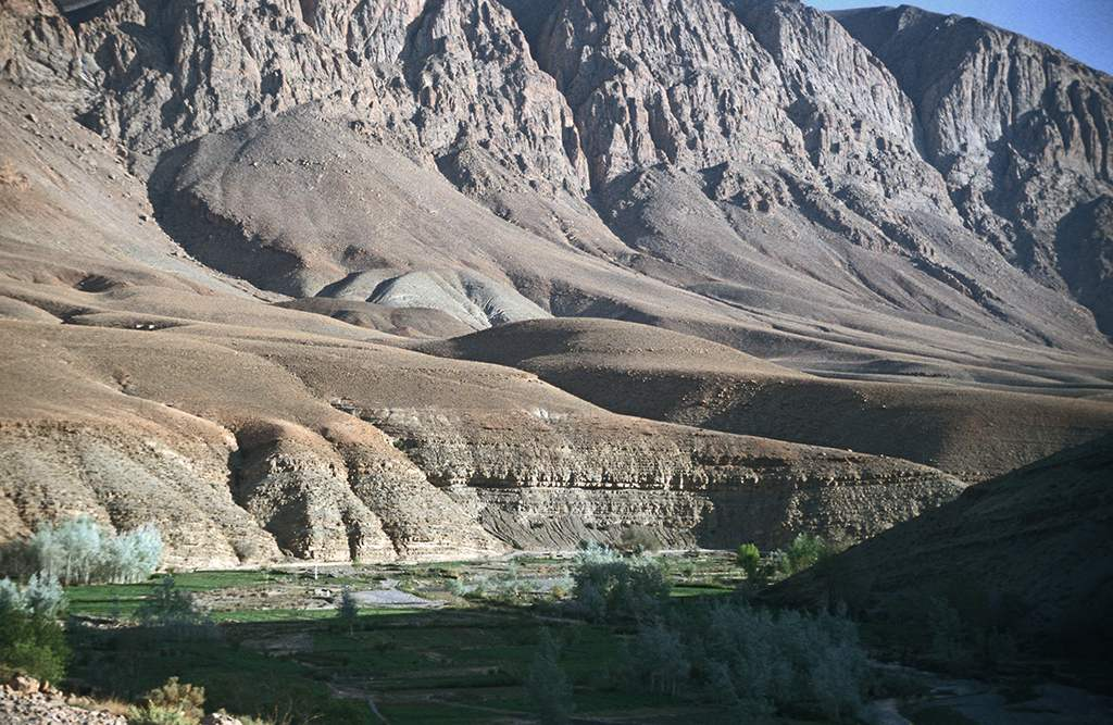 Dadès Gorges in Morocco